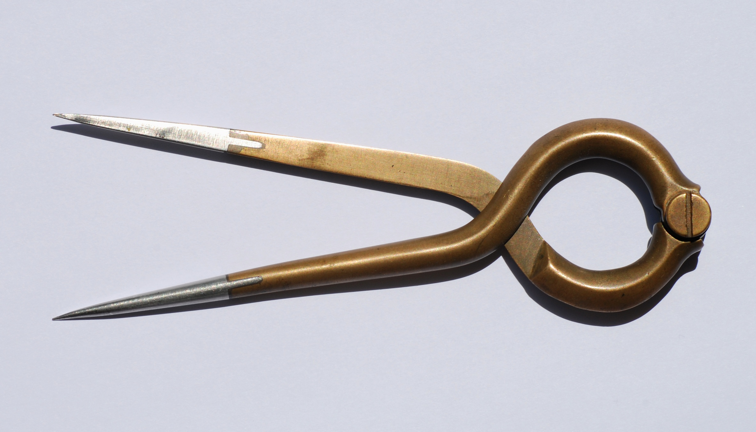 Navigational compass. This is a special type of Dividers used to work on the chart. Notice how the design allows to use the instrument with a single hand.